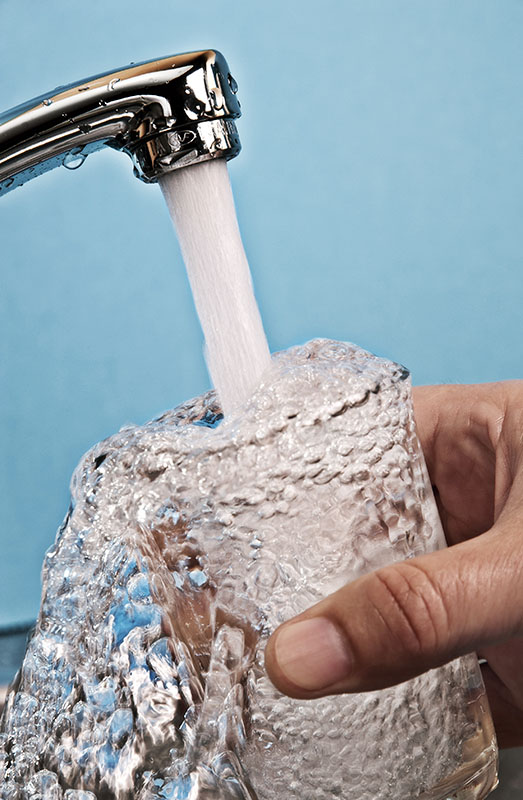 Drinking water is poured from a tap into a glass.